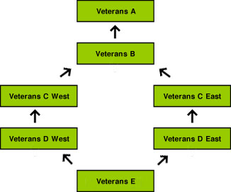 Diagram of the competition structure for the Hockey Victoria veterans (overage) competition.